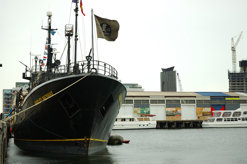 Farley Mowat. I took this in Melbourne, Australia in 2005 before she took off for Antarctica to pursue the Japanese whaling fleet.